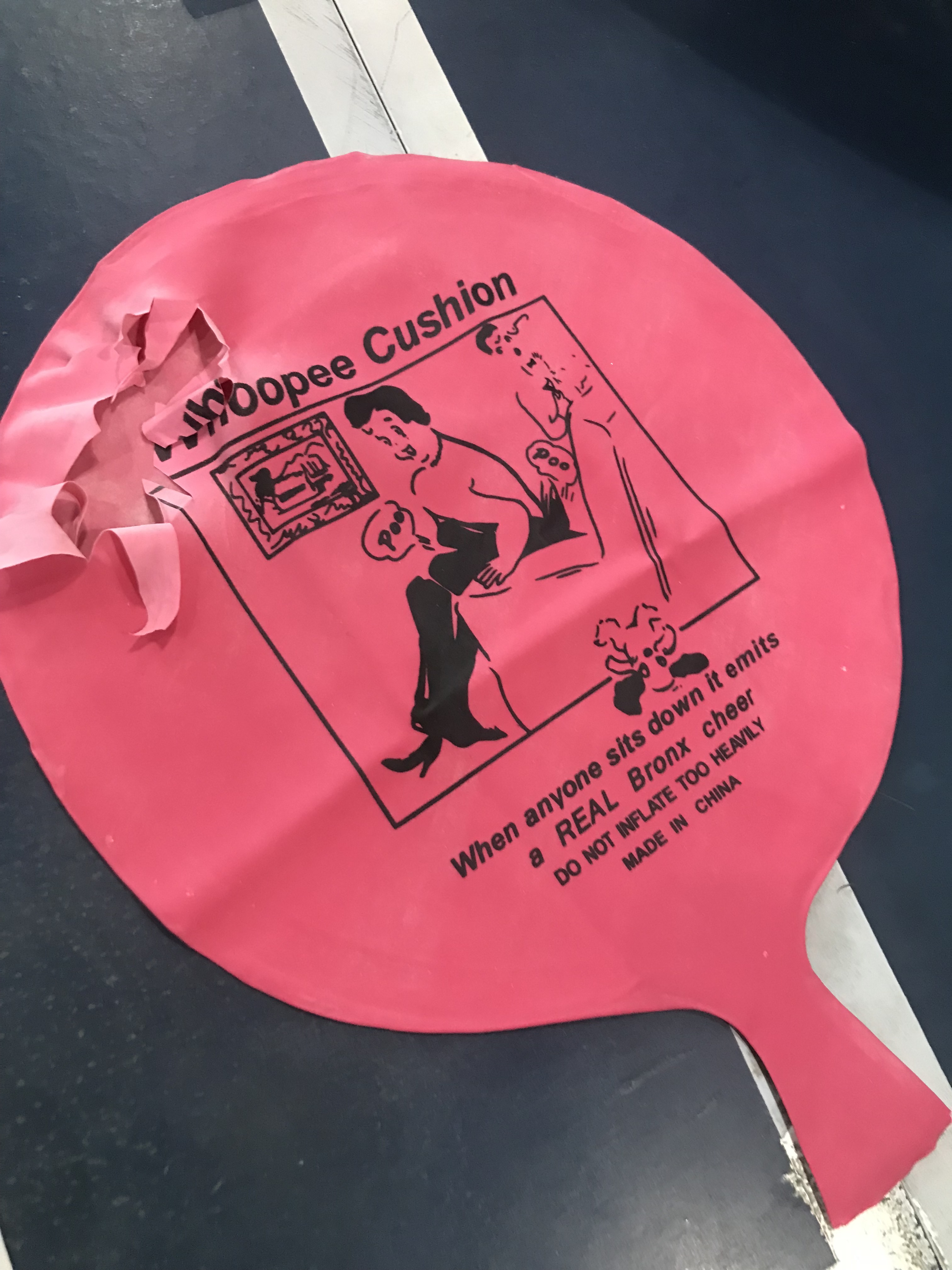 Exploded Whoopee Cushion - caused by overinflation.